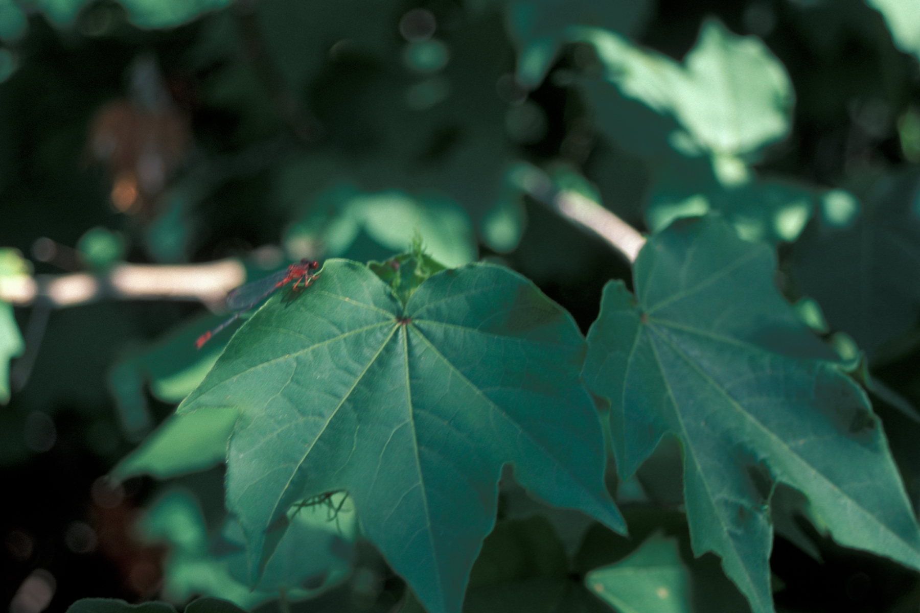 Gossypium hirsutum (Upland cotton) With Megalagrion xanthomelas at La Perouse, Maui, Hawaii. December 01, 1998 #981201-0228 Image Use Policy